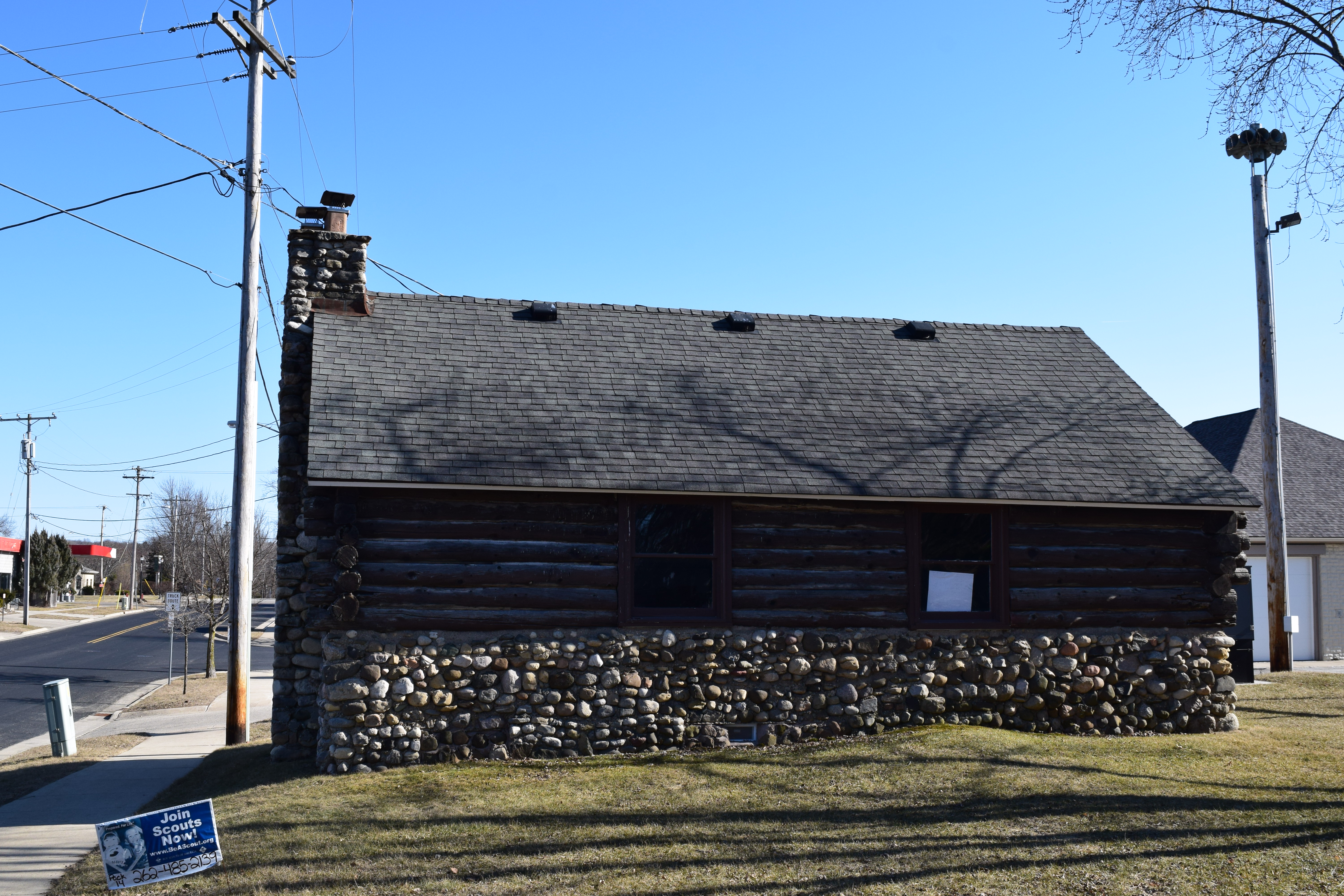 Side view of the Palmyra Boy Scout Cabin, located at 105 N. 1st St. in Palmyra, Wisconsin. The cabin is listed on the National Register of Historic Places.